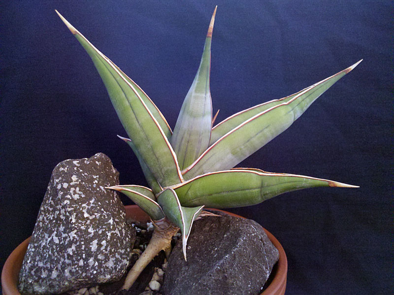 Sansevieria pinguicula in cultivation